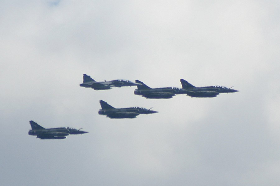 Air parade over Paris on July 14, 2008 above St Germain in Laye: 4 Dassault Mirage 2000D of the EC 2/3 'Champagne' from BA133 Nancy-Ochey and a Hungarian Saab JAS 39 Gripen form Kecskemét AB